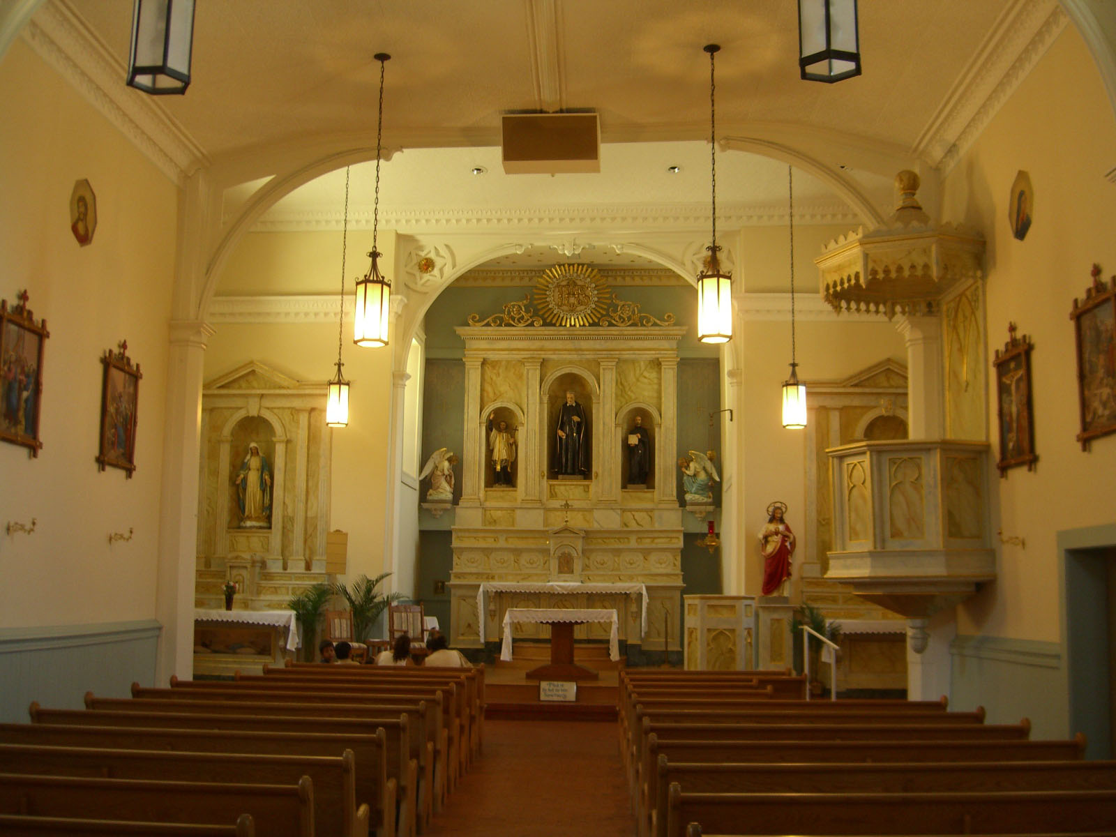 San Felipe de Neri Church in the Old Town district in Albuquerque, New Mexico.